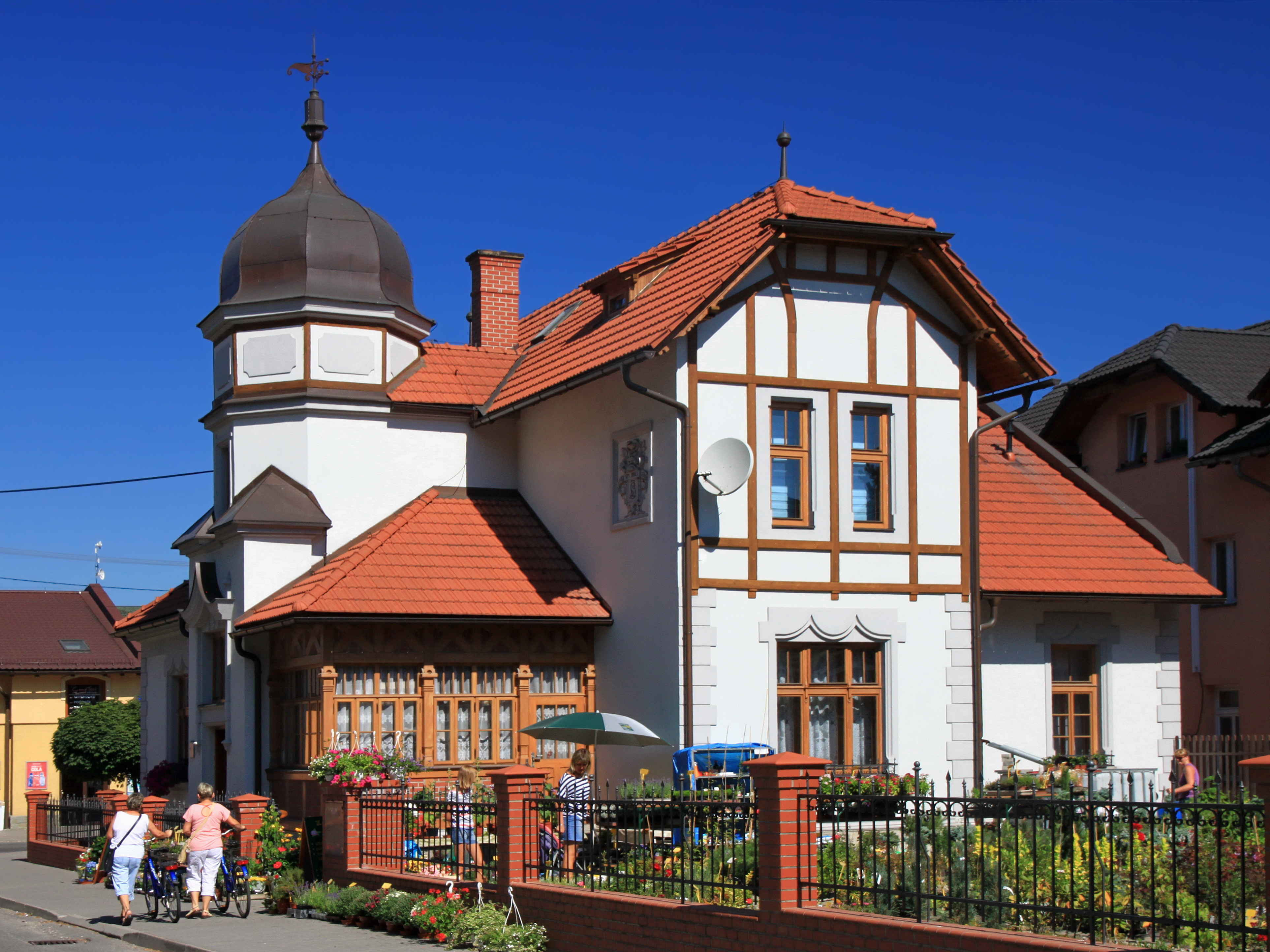 Archive of Cieszyn Silesia Military History, Jablunkov, house no. 137